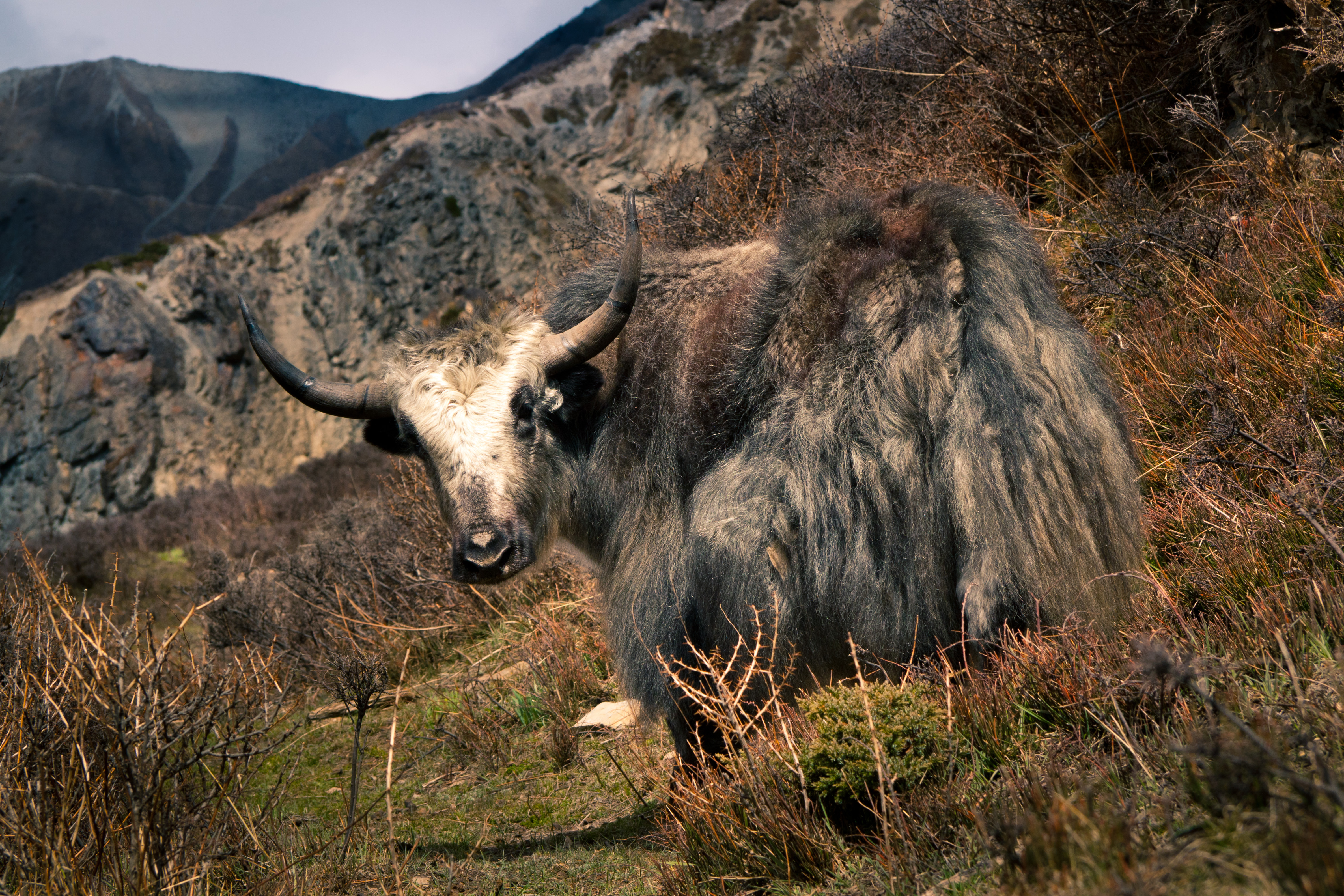 Yak in Nepal